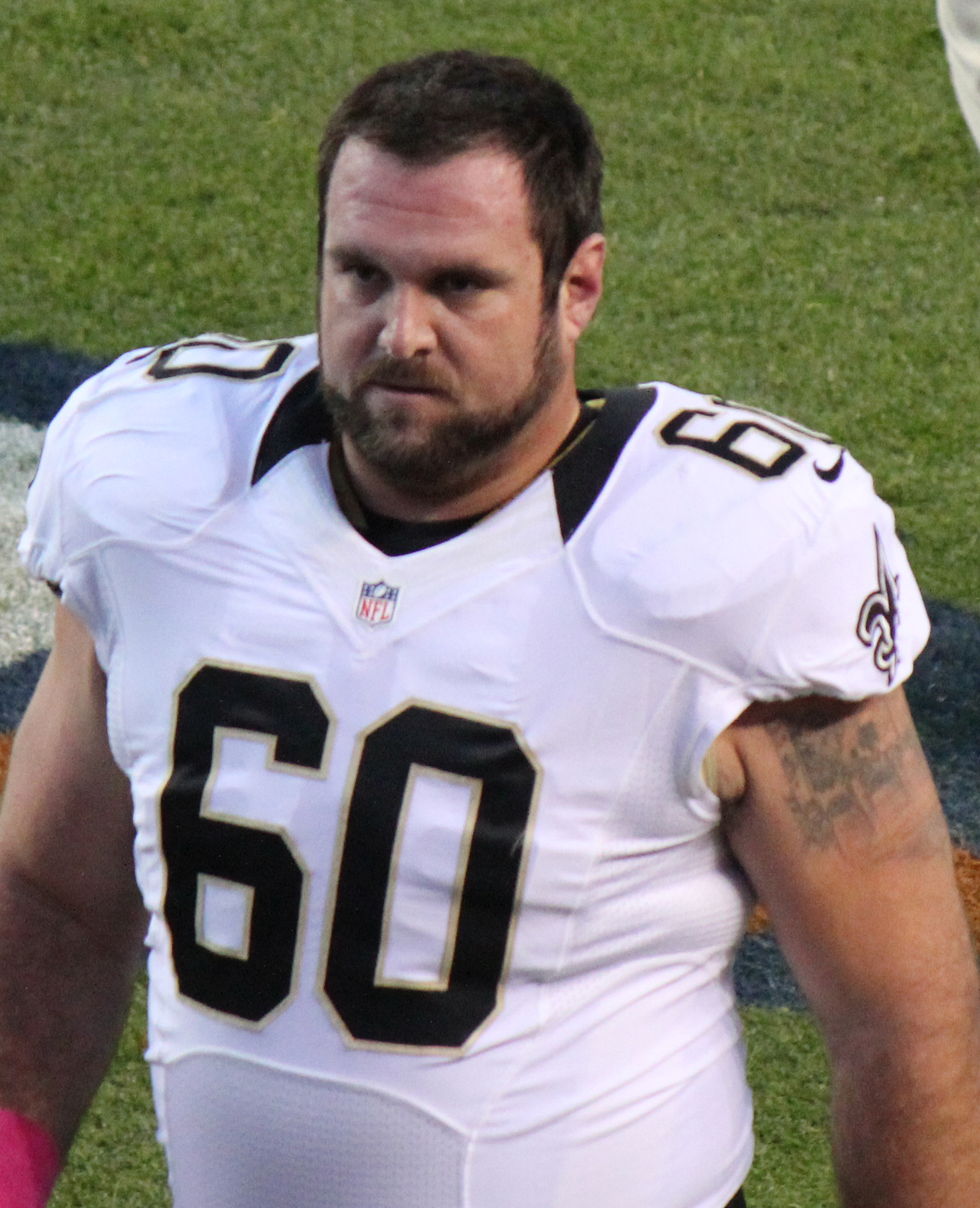 Brian de la Puente, a player on the National Football League.